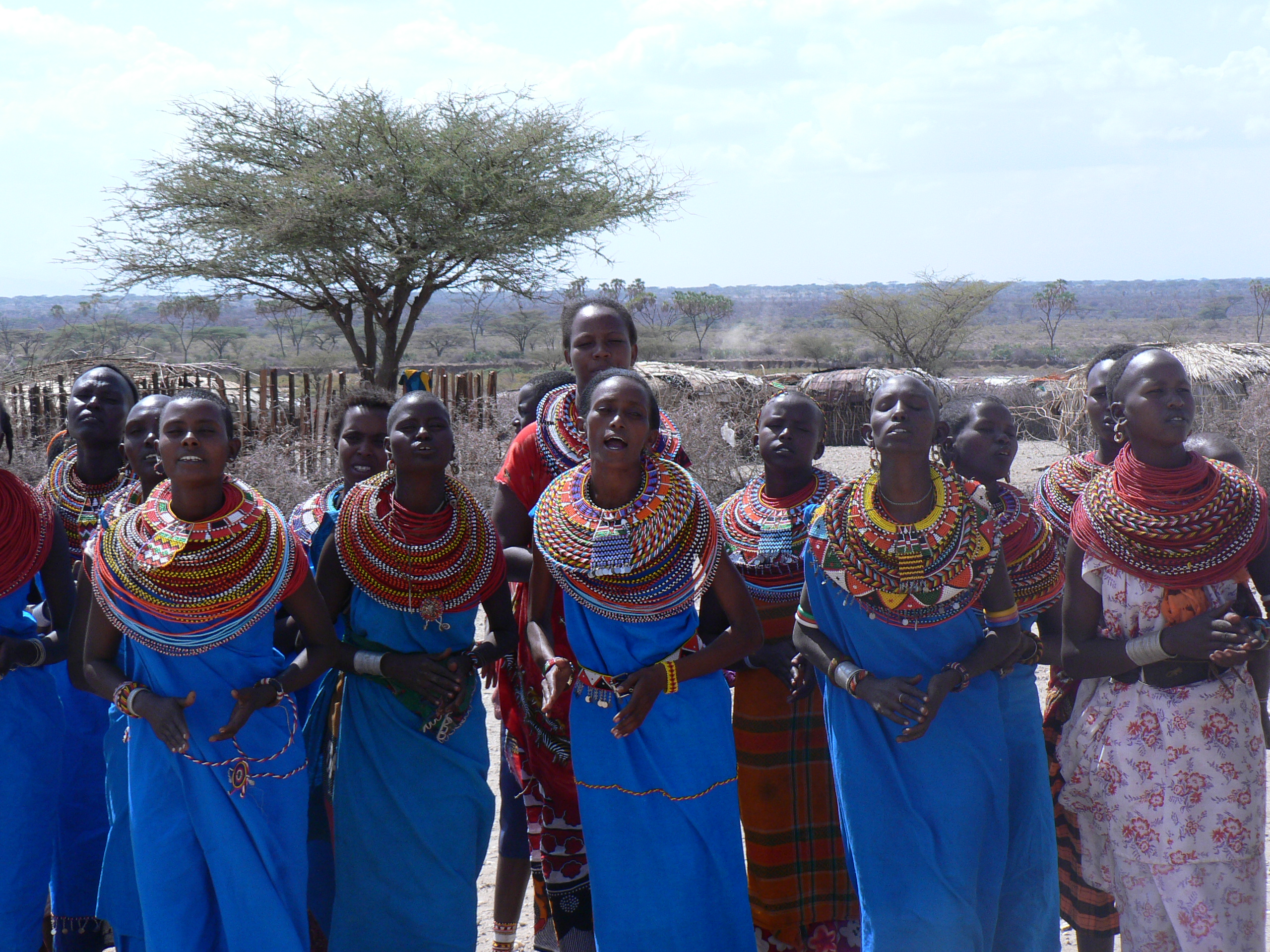 Samburu women singing.